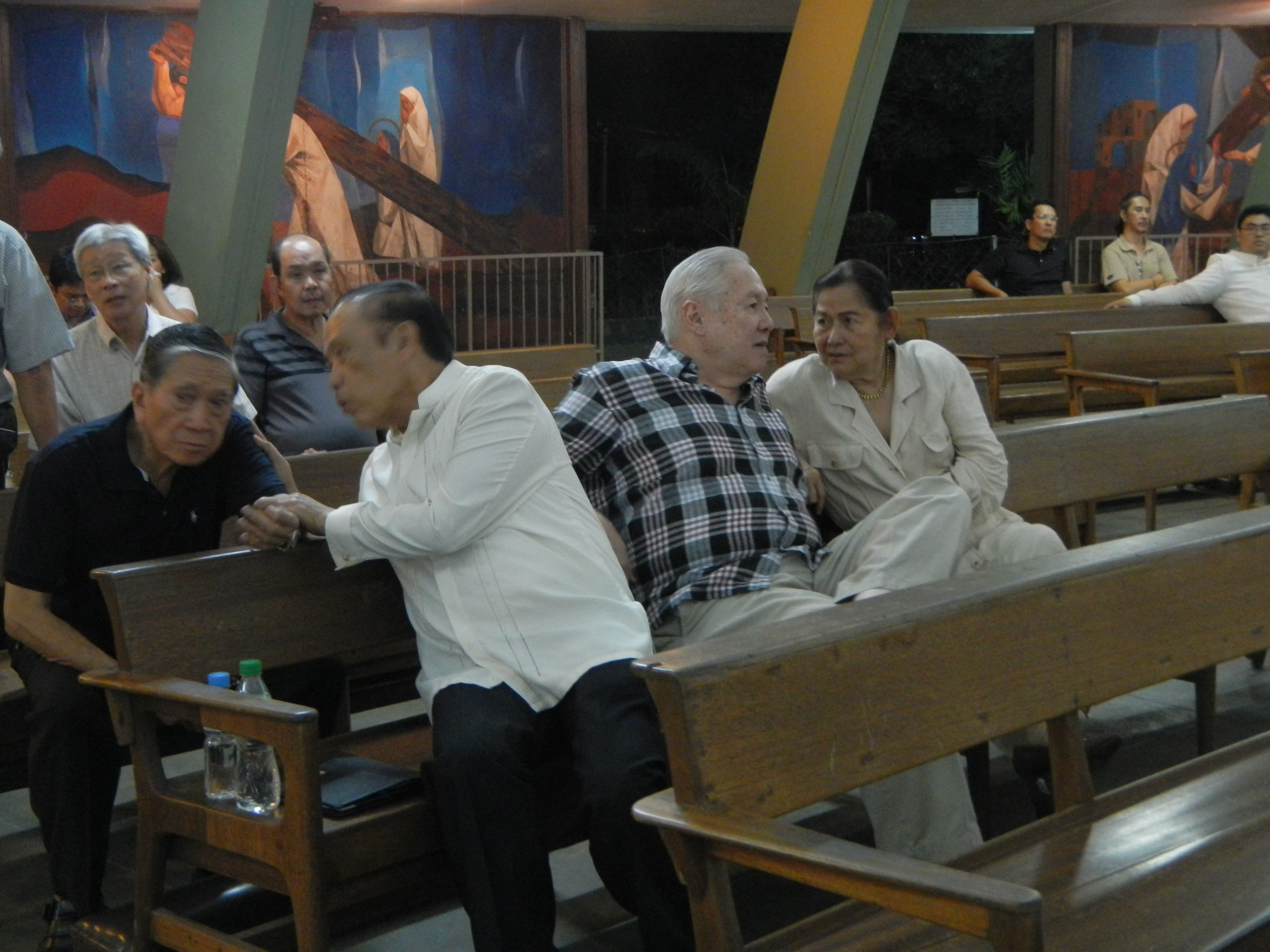 Dr. Mahar Mangahas is the president of Philippine-based opinion survey firm Social Weather Stations (SWS). A former professor of economics at the University of the Philippines Diliman, he earned his Ph.D. in Economics from the University of Chicago. The Filipino economic and social indicators expert also writes for the Philippine Daily Inquirer - at the Onofre Corpuz UP necrological service (Eulogy) of April 1, 2013 at the Parish of the Holy Sacrifice, UP Diliman.